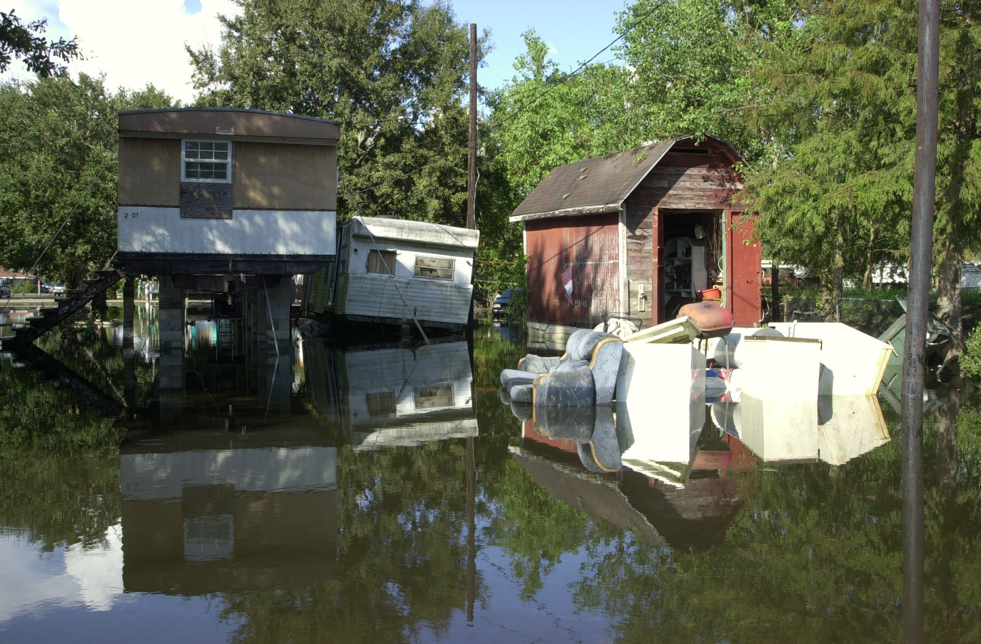 Montegut, LA, October 7, 2002 -- Montegut remains underwater after it's levee broke from the tidal surge brought in by Hurricane Lili. Photo by Bob McMillan/ FEMA News Photo